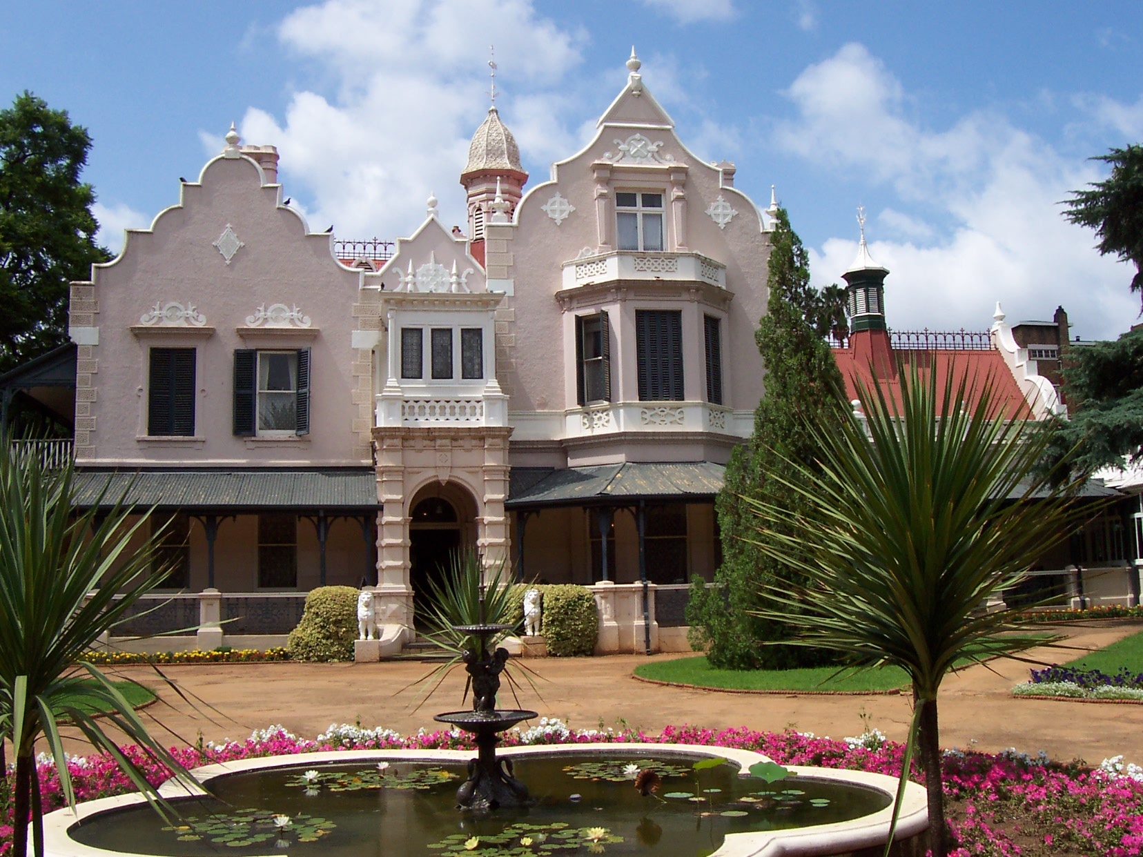 Melrose House in Pretoria / South Africa. I have taken this myself in January 2005.